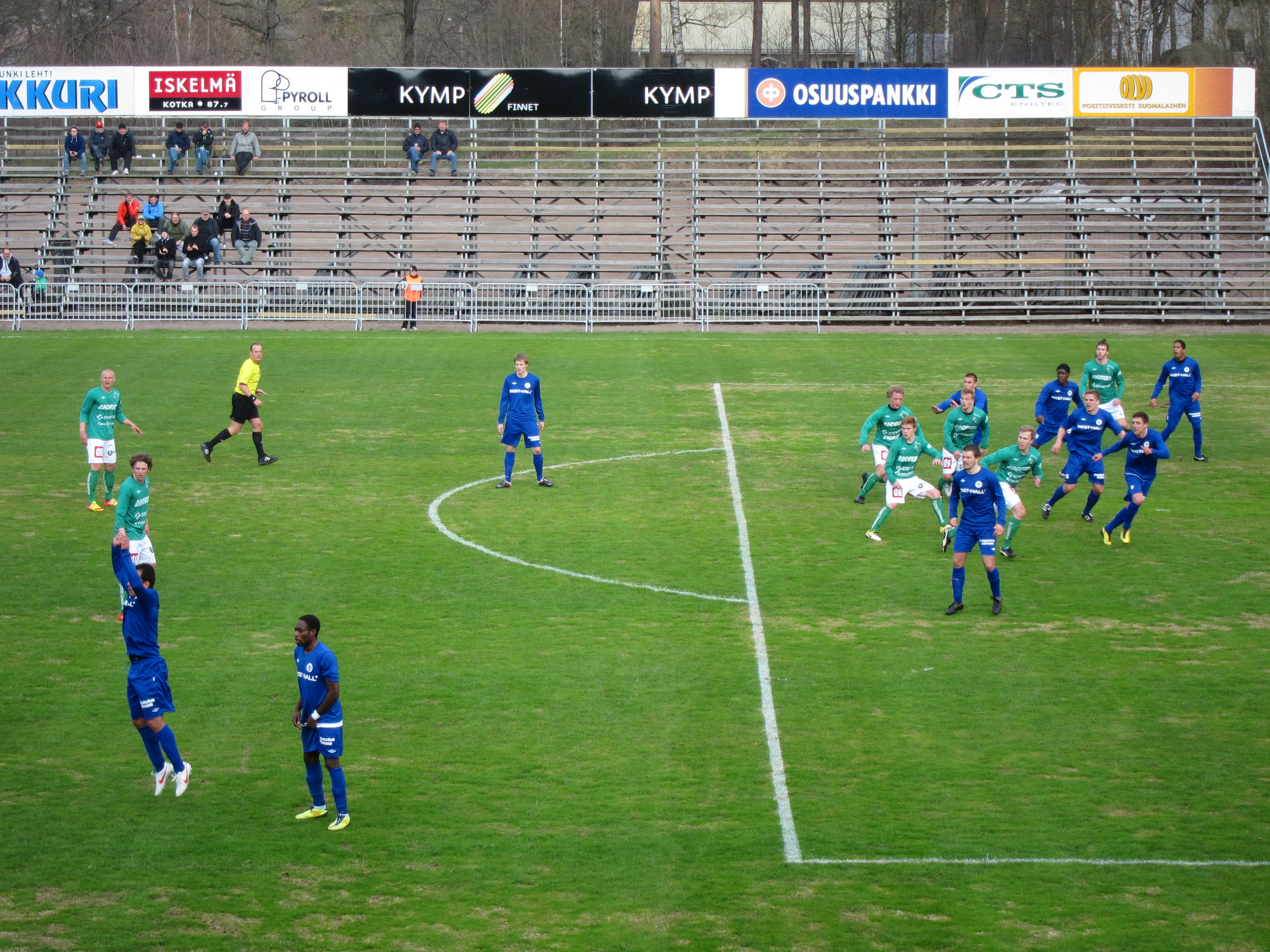 Ottelu FC KooTeePee-OPS Ykkösessä 5. toukokuuta 2012 Kotkassa Arto Tolsa Areenalla.